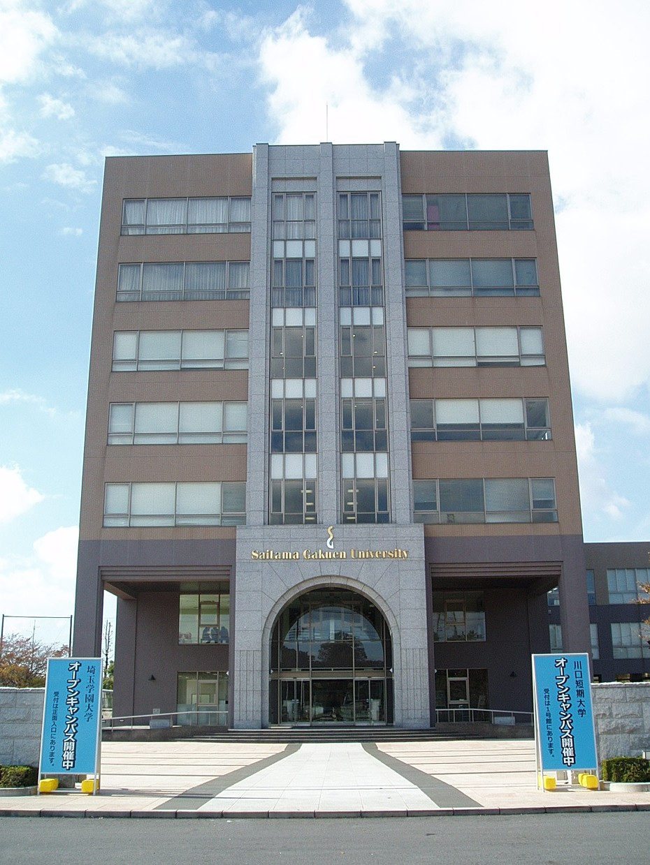 Saitama Gakuen University located in Kawaguchi, Saitama, Japan.